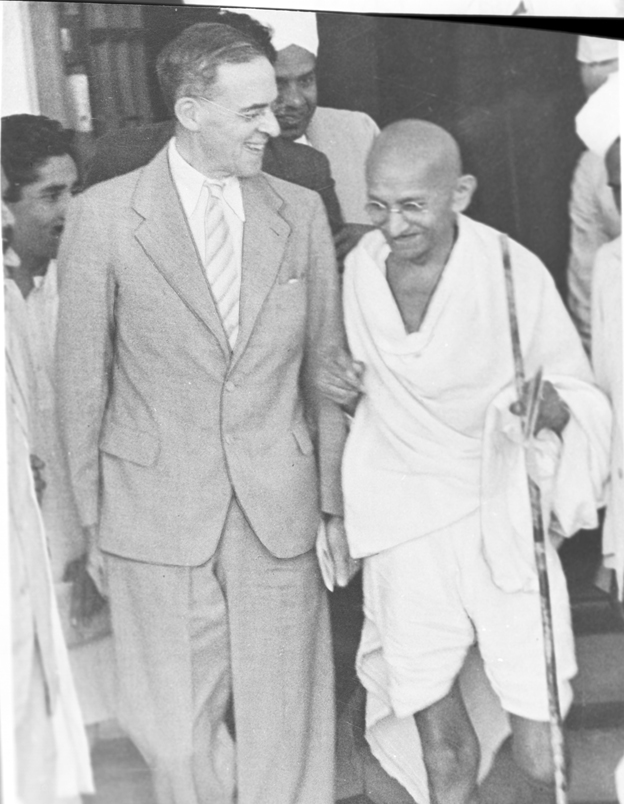 Ved & Co./April,1942,A31e Cripps Mission, 1942 Sir Stafford Cripps and Mahatma Gandhi.